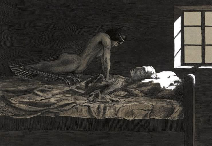 A notable depiction of a Succubus-like vision, in contrast to the Incubus.